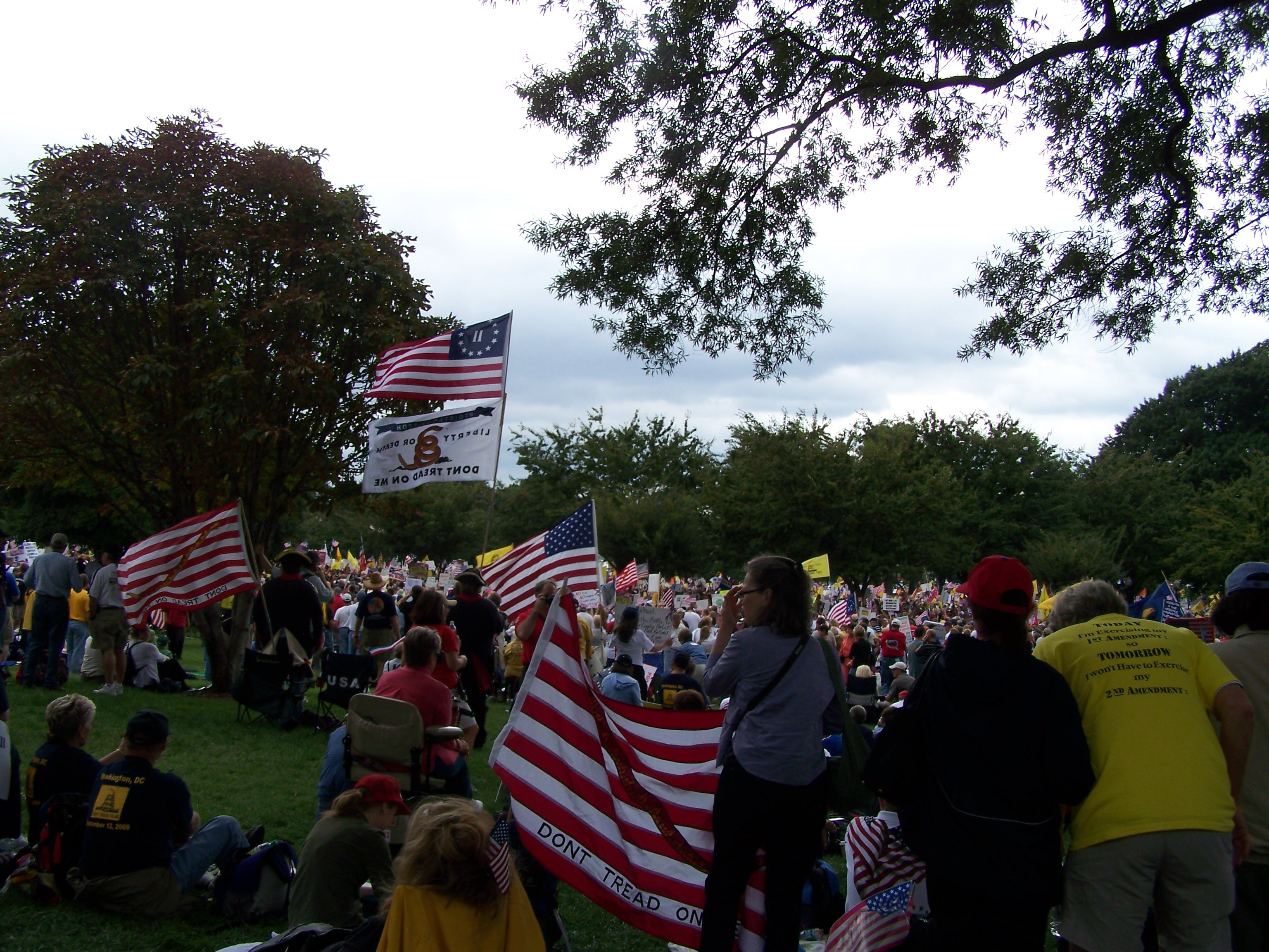 Tea Party attendees listen to speakers during the Taxpayer March on Washington.